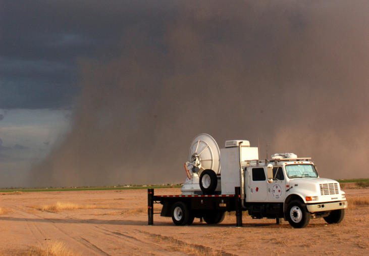 SMART-R sampling a haboob in the central plains.